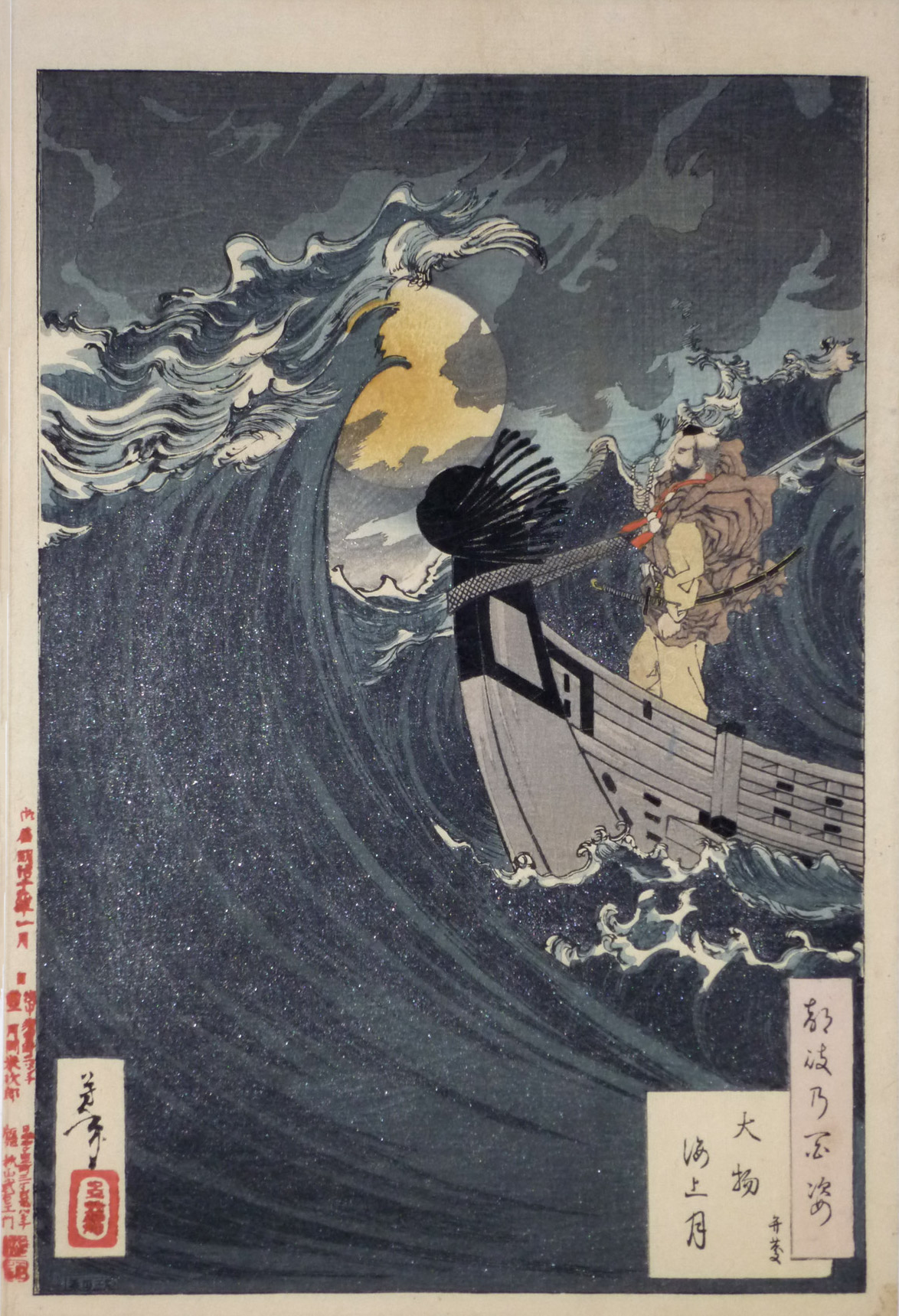 Moon above the sea at Daimotsu Bay (Daimotsu kaijo no tsuki)